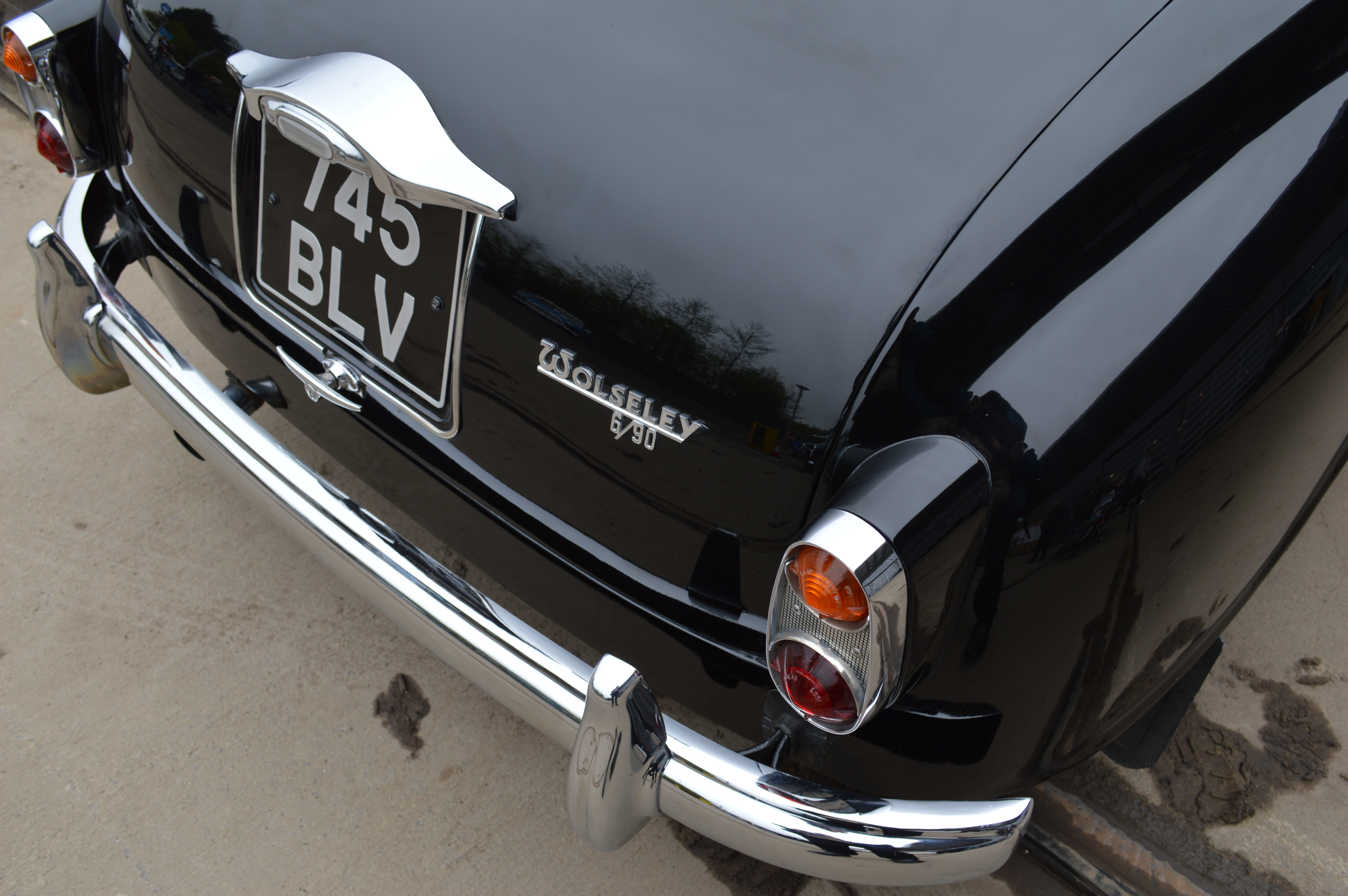 1959 Wolseley Six-Ninety saloon DVLA frst registered 17 March 1959, 2639cc Northern Bygones Rally, Shildon 27th April 2014